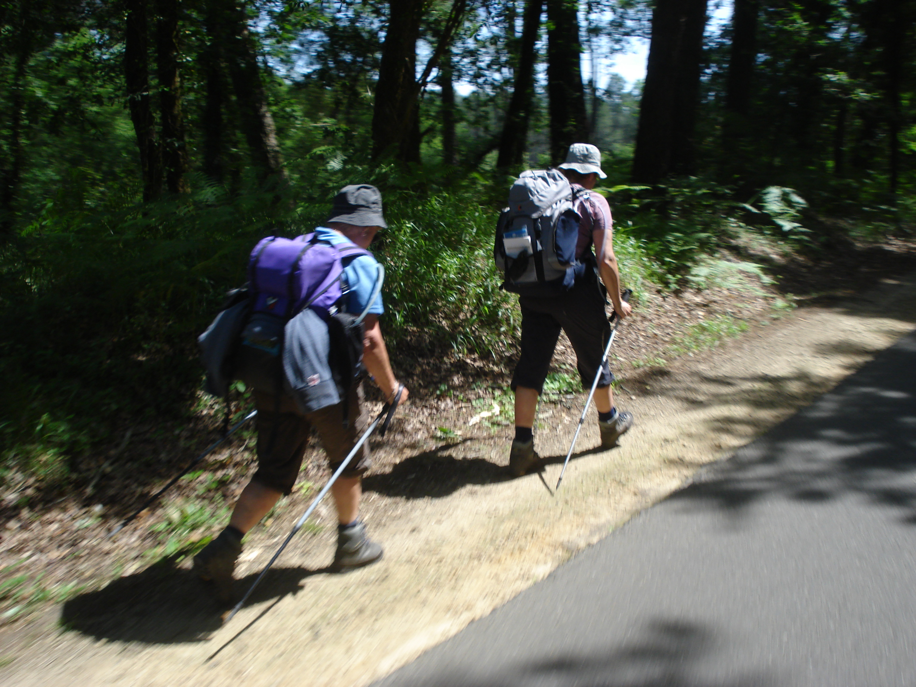 Pilgrims on the way of Saint James near Bougue (Landes, Fr).